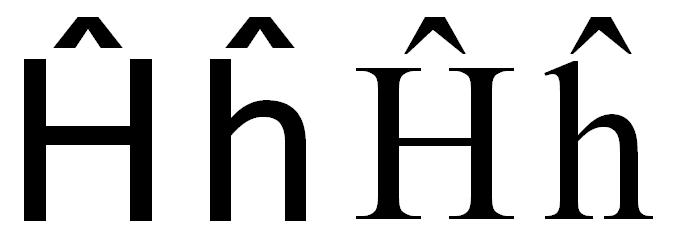 Latin_letter_Ĥĥ.